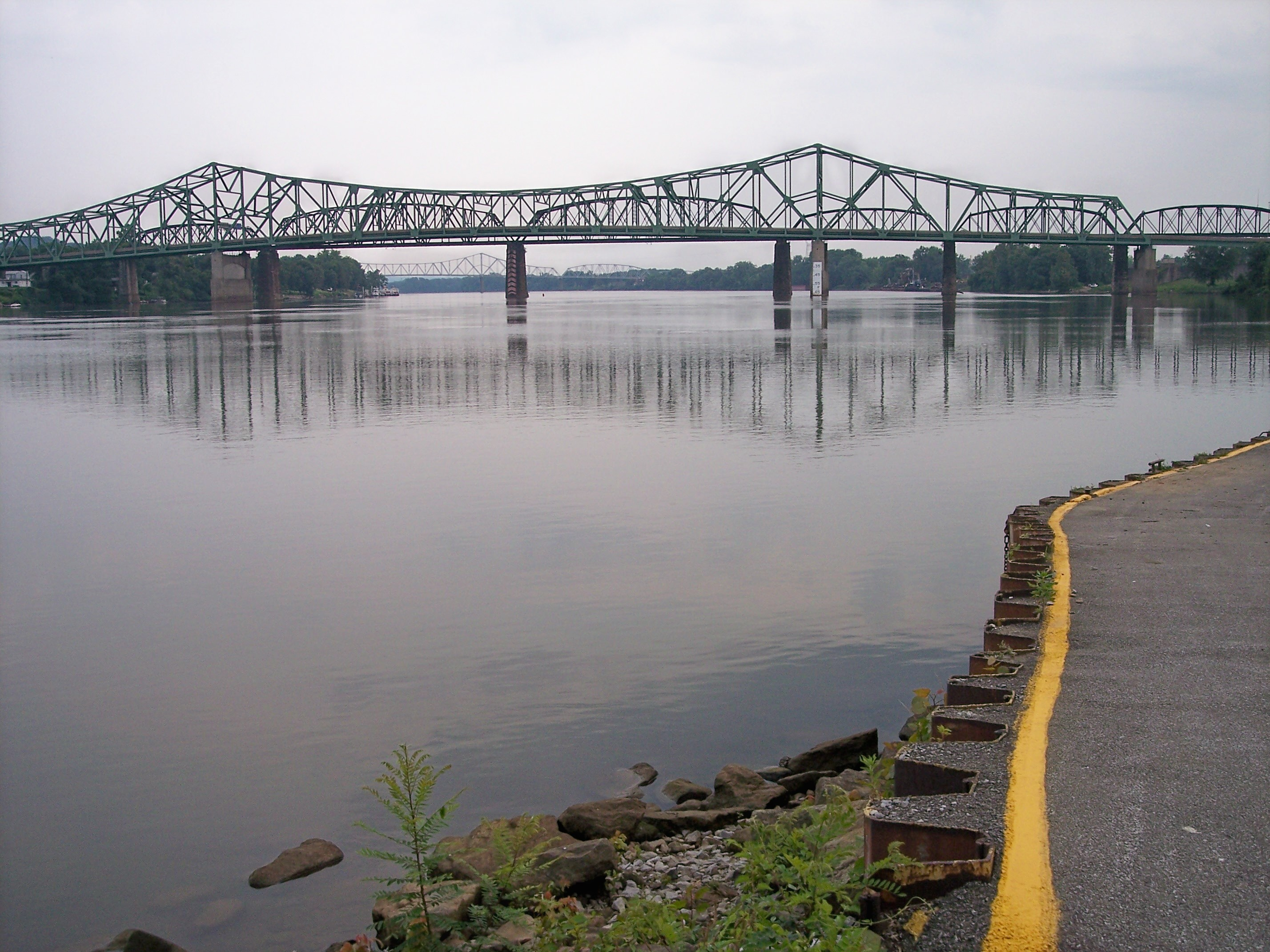 The Belpre-Parkersburg Bridge (foreground), the CSX Bridge (middle ground), and the Memorial Bridge (background), crossing the Ohio River, as viewed from Point Park in Parkersburg, West Virginia